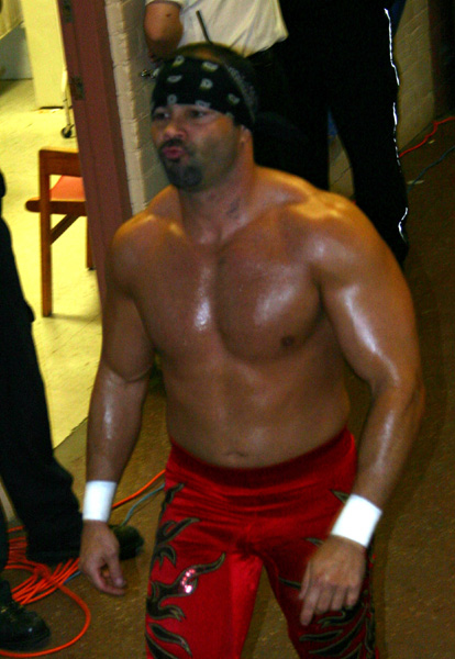 Chavo Guerrero, Jr. makes his entrance on a WWE house show held in Kitchener, Ontario, Canada on January 15, 2005.